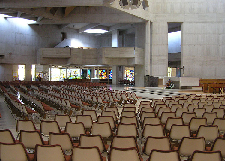 The Cathedral Church of Saints Peter and Paul is a Roman Catholic place of worship in Bristol, England. The building is better known as Clifton Cathedral. Construction started in March 1970 and was completed in June 1973. The internal walls are cast reinforced white concrete. The building seats 1000 people.